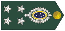 General shoulder strap rank insignia for the Brazilian Army